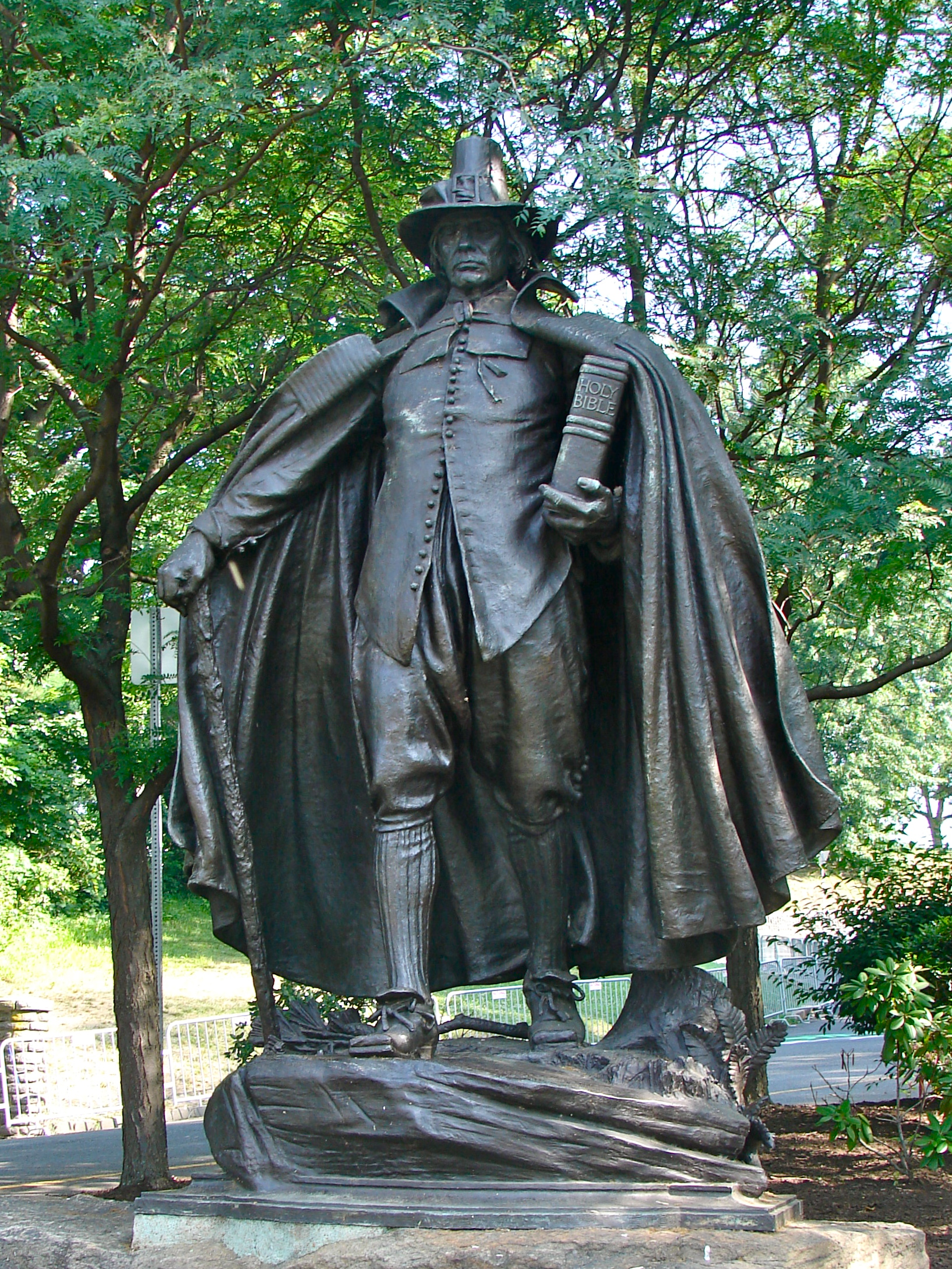 By Augustus Saint-Gaudens, 1904, based on his earlier "The Puritan" in Springfield, Mass. Face and folds of cloak differ and book is labeled "Holy Bible". On Kelly Drive, near the Boathouses, in Philadelphia. Formerly stood in the south plaza of City Hall.